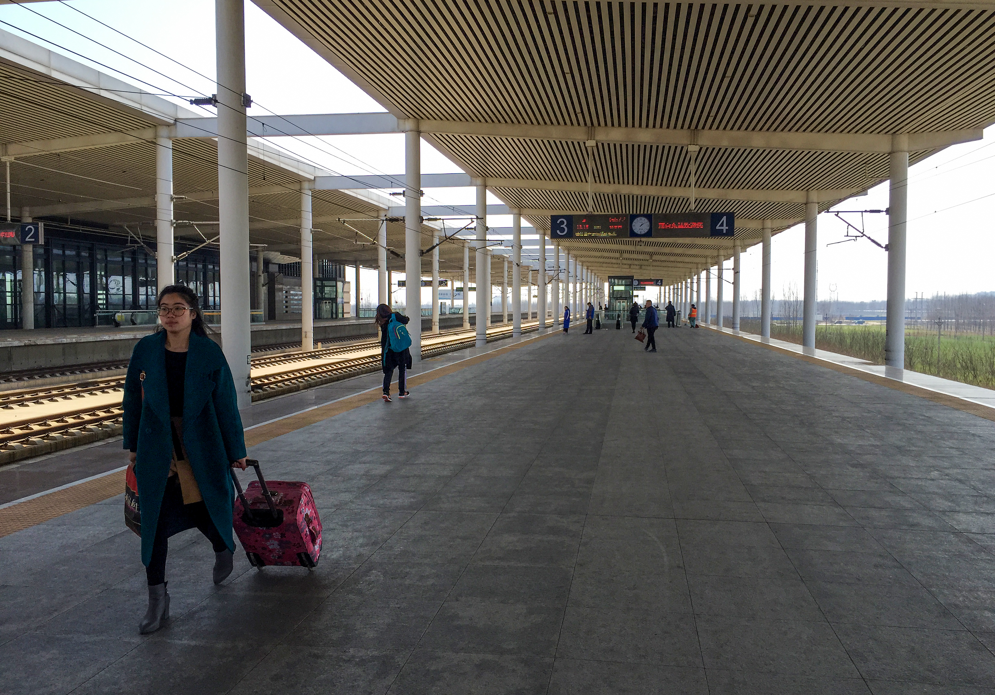 Not so crowded... This platform is right on the east of G4.